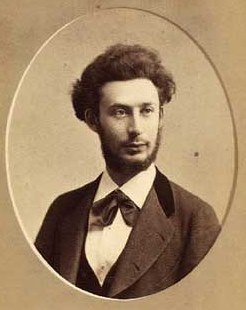 Carl Edvard Cohen Brandes (1847-1931), Danish politician, MP, Finance Minister, critic, writer, and editor